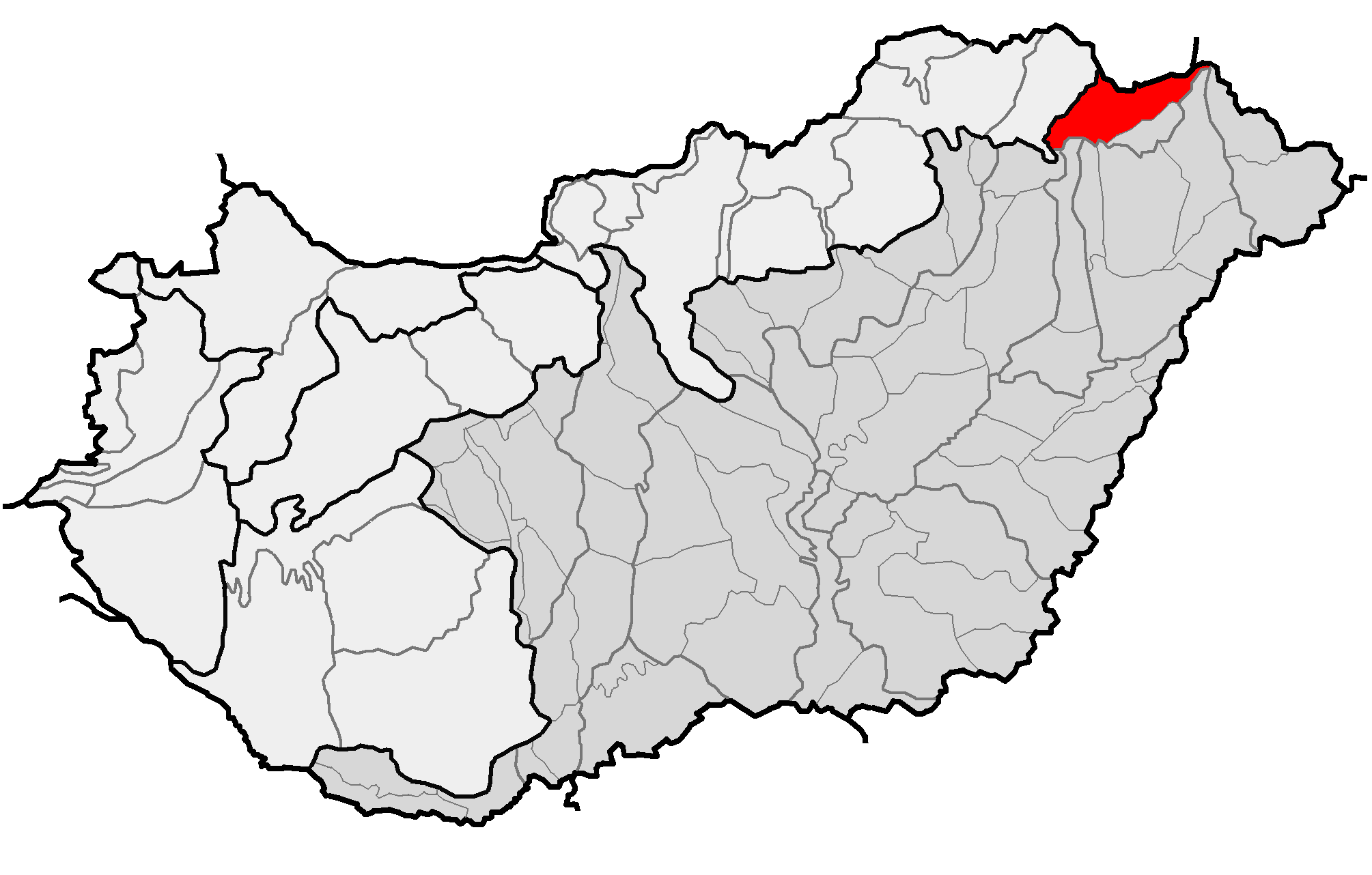 Location of geographical microregion of Bodrogköz (red) and macroregion of Alföld (gray) within subdivisions of Hungary.